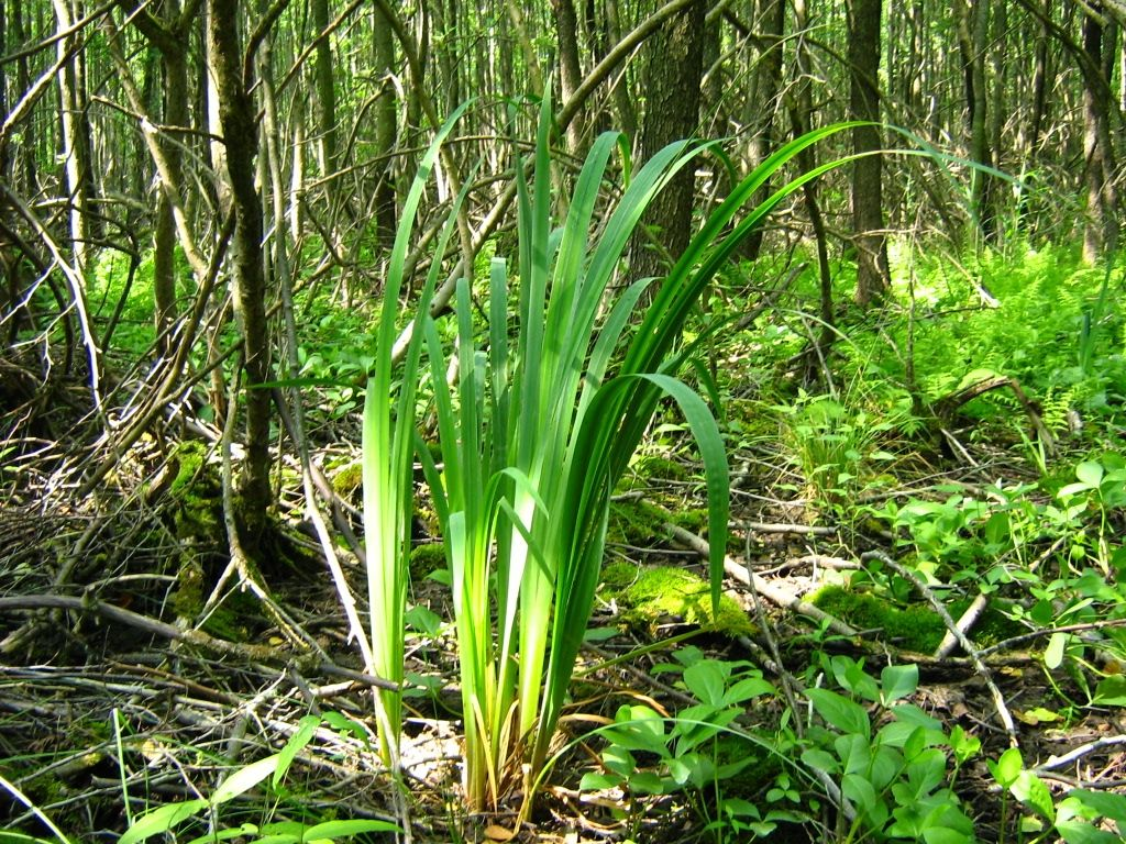 Adler wood. Yellow iris.